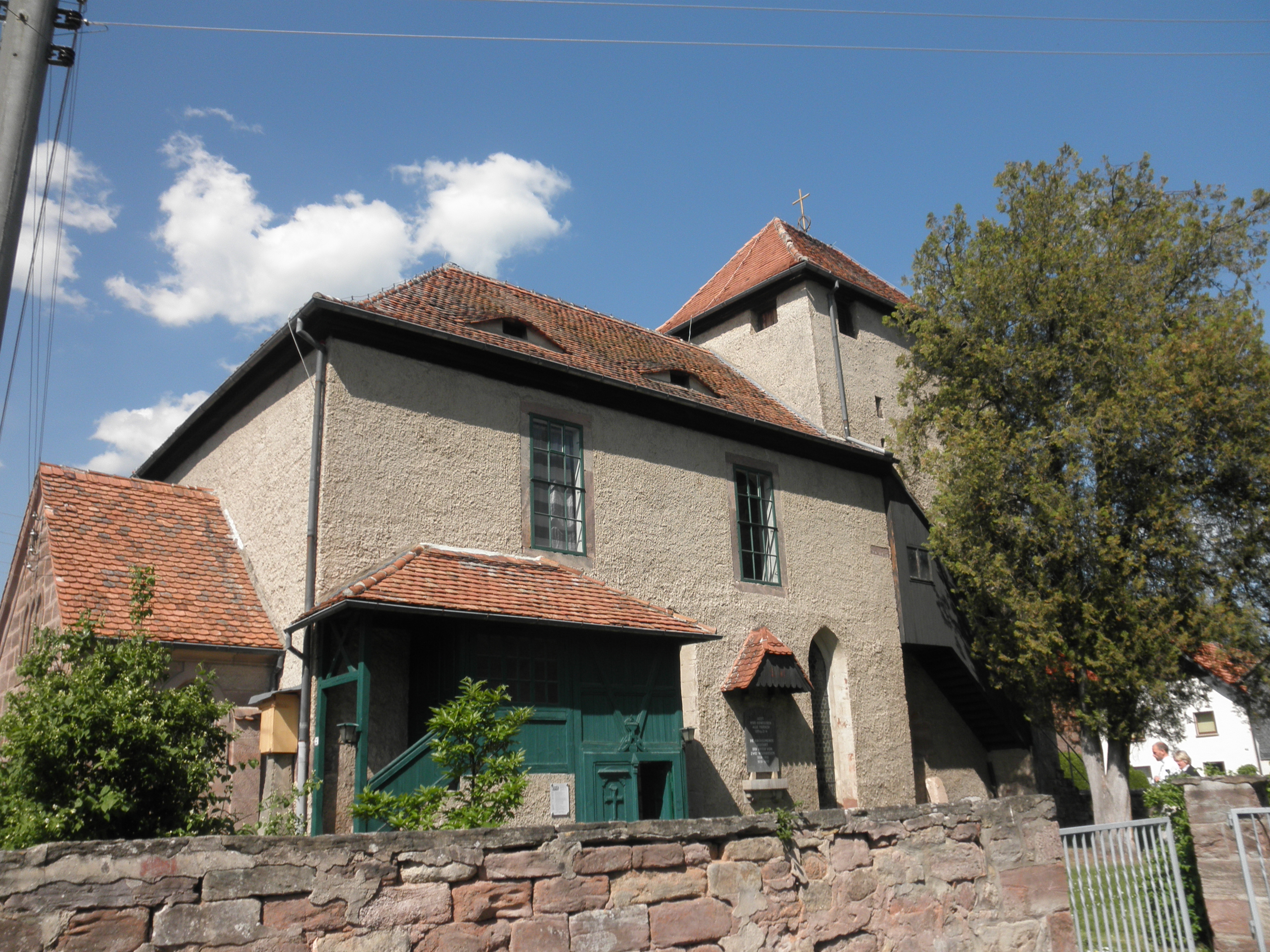 Church in Gumperda in Thuringia